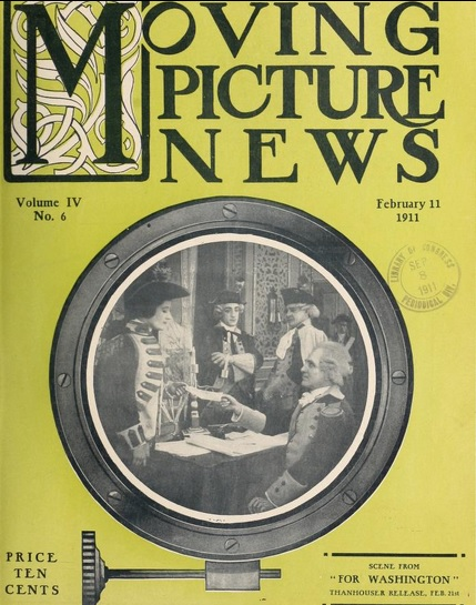 The cover of Moving Picture News from February 11, 1911. It shows For Washington from the Thanhouser Company on the cover.